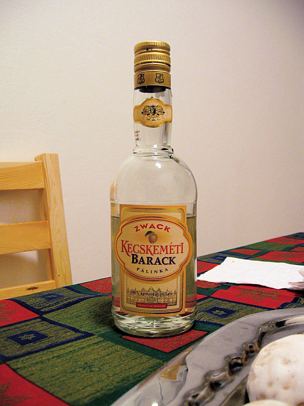 A bottle of Palinka, a typical Hungarian drink